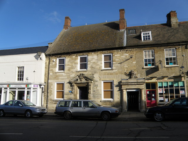 Thrapston Corn Exchange. The relief above the door can be seen in close up 1176425